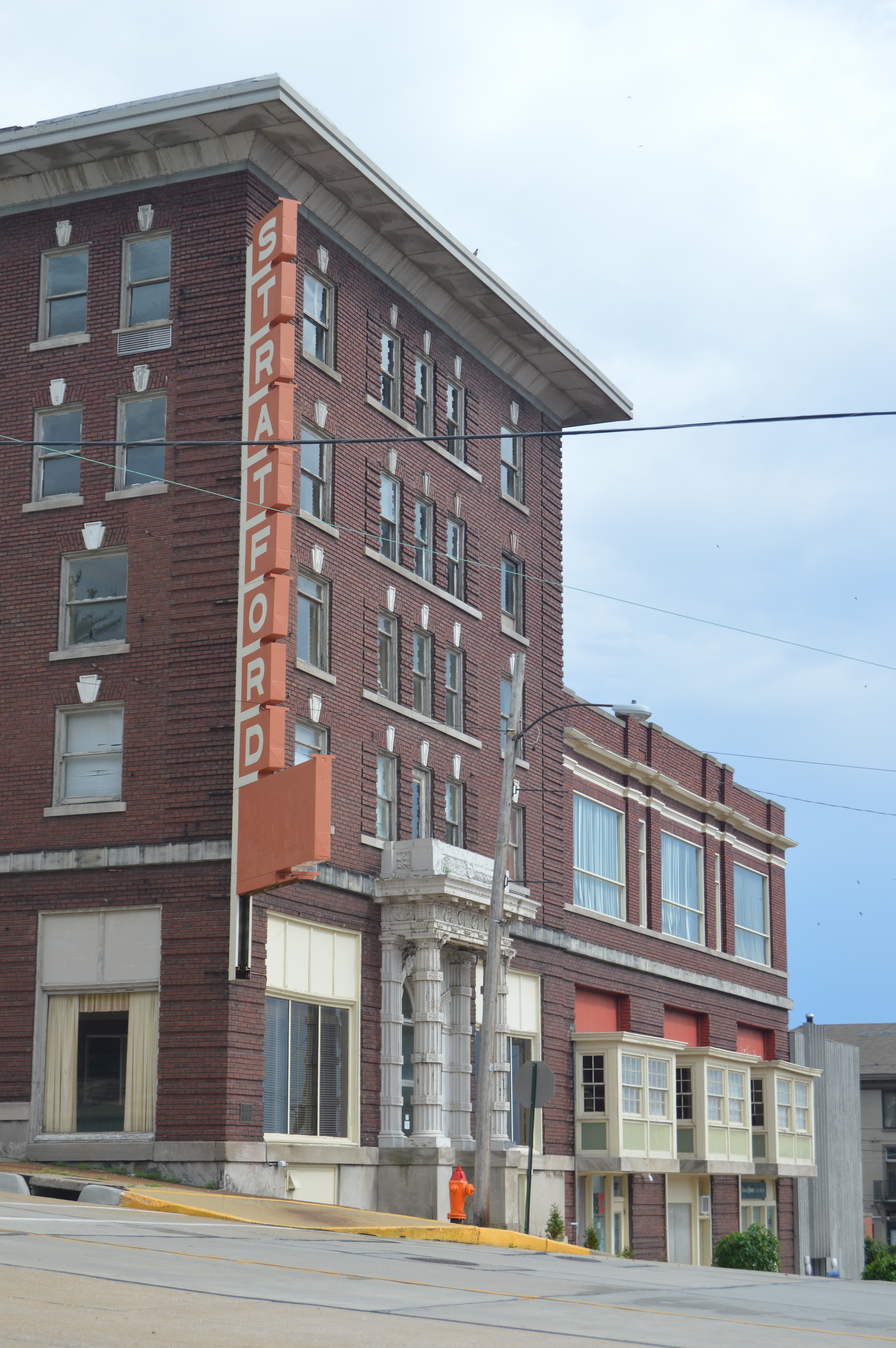 Front of the Hotel Stratford, located at 229 Market Street in Alton, Illinois, United States. Built in 1909, it is listed on the National Register of Historic Places.